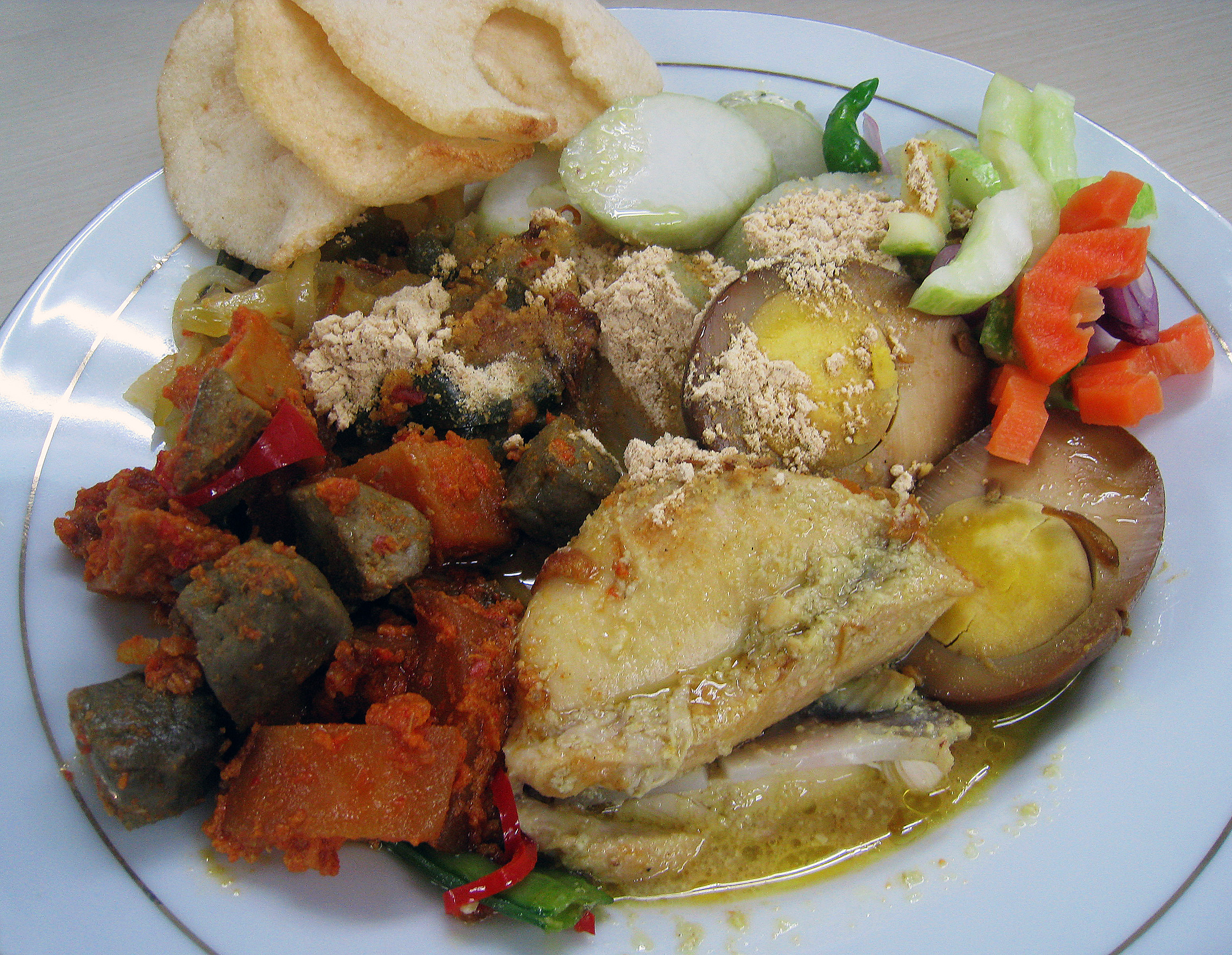 Lontong Cap Go Meh is a peranakan Chinese Indonesian take on traditional Indonesian dishes, more precisely Javanese cuisine. It is lontong served with rich opor ayam, sayur lodeh, sambal goreng ati (beef liver in sambal), acar, telur pindang (hard boiled marble egg), koya powder (mixture of soy and dried shrimp powder), sambal, and kerupuk udang (prawn crackers). Lontong Cap Go Meh usually consumed by Chinese Indonesian community during Cap go meh celebration.